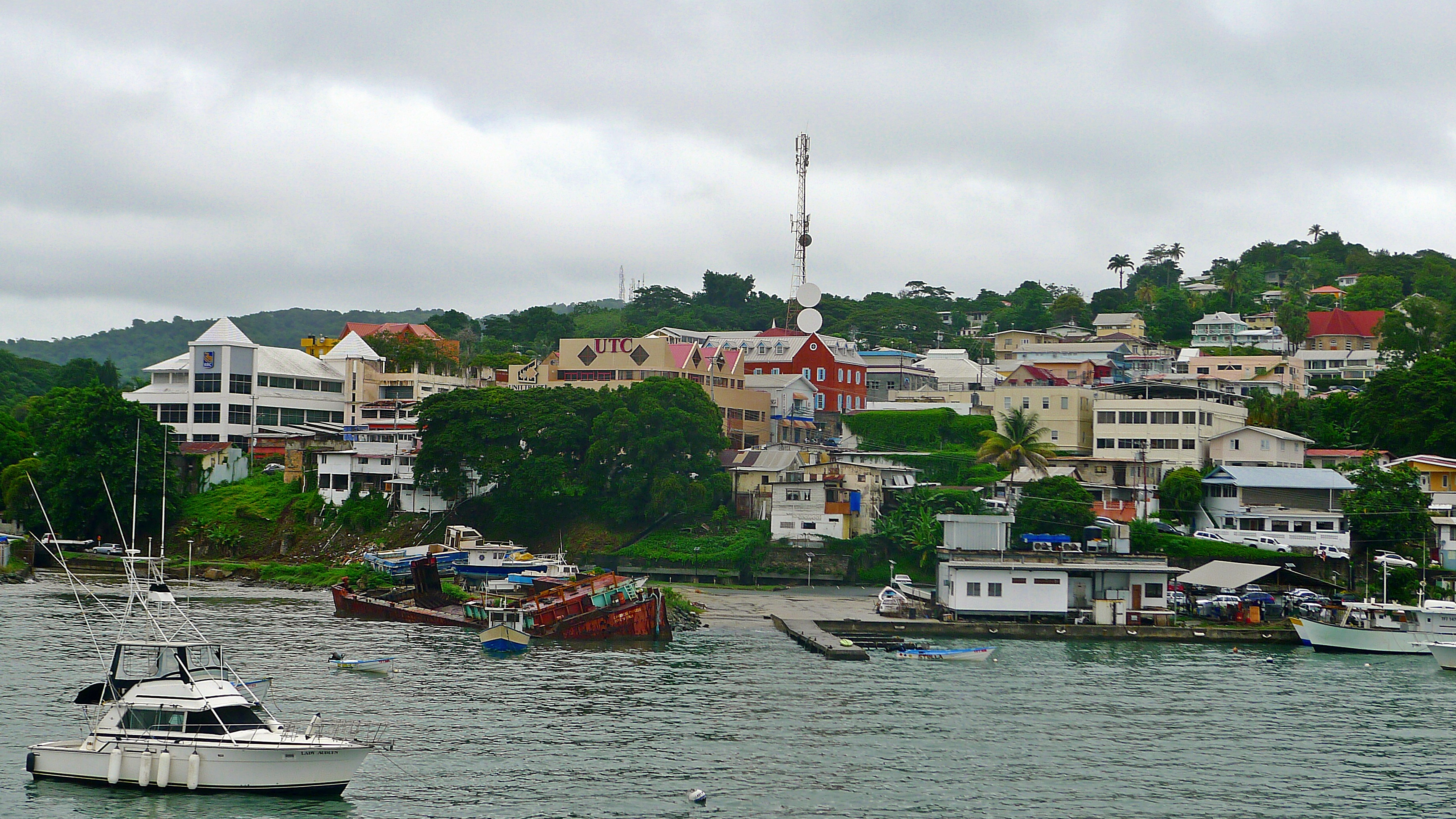 Scarborough is the administrative capital of the island of Tobago. It is connected to the main island of Trinidad by a daily ferry service. There is also an air-bridge service between Crown Point (Tobago) and Piarco (Trinidad).